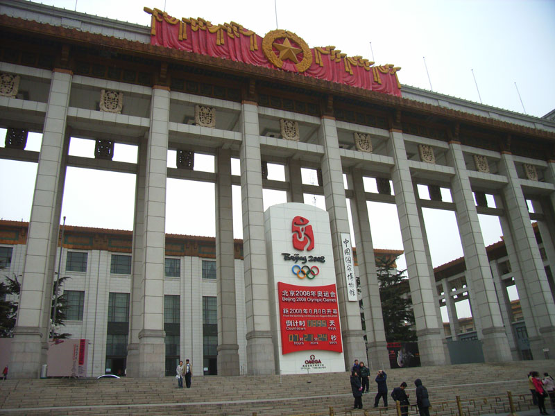 National museum of China photo by:zh:user:吉恩